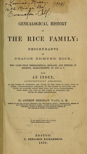 Title page of Andrew Henshaw Ward's 1858 genealogical work on the Descendants of Edmund Rice (1594-1663) an early immigrant to Massachusetts Bay Colony